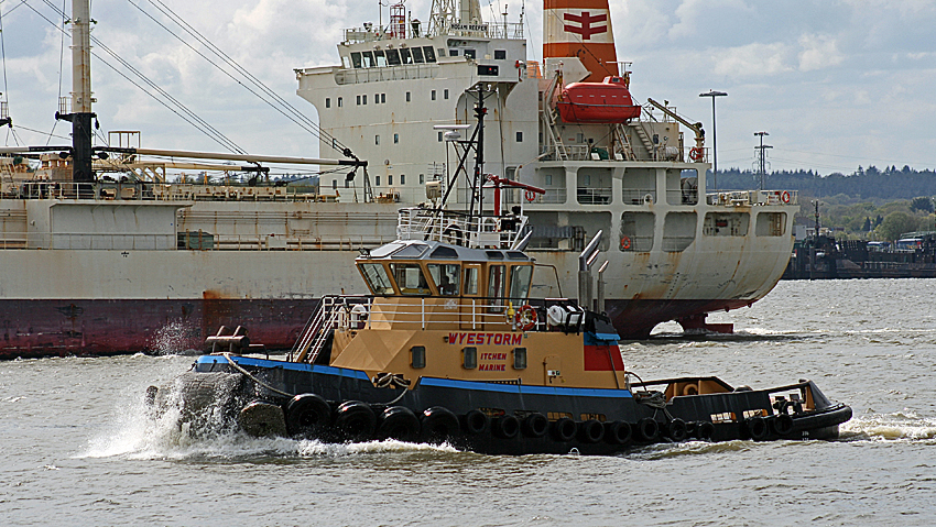 Wyestorm, Ichen Marine tug in Southampton Water. Other names: Yenikale, Atlas. Information about Wyestorm (tug) may be found at IMO 9193068.A ship can change name and flag state through time, but the IMO number remains the same through the hull's entire lifetime. As a result, it can be useful to identify a ship by using the IMO number.